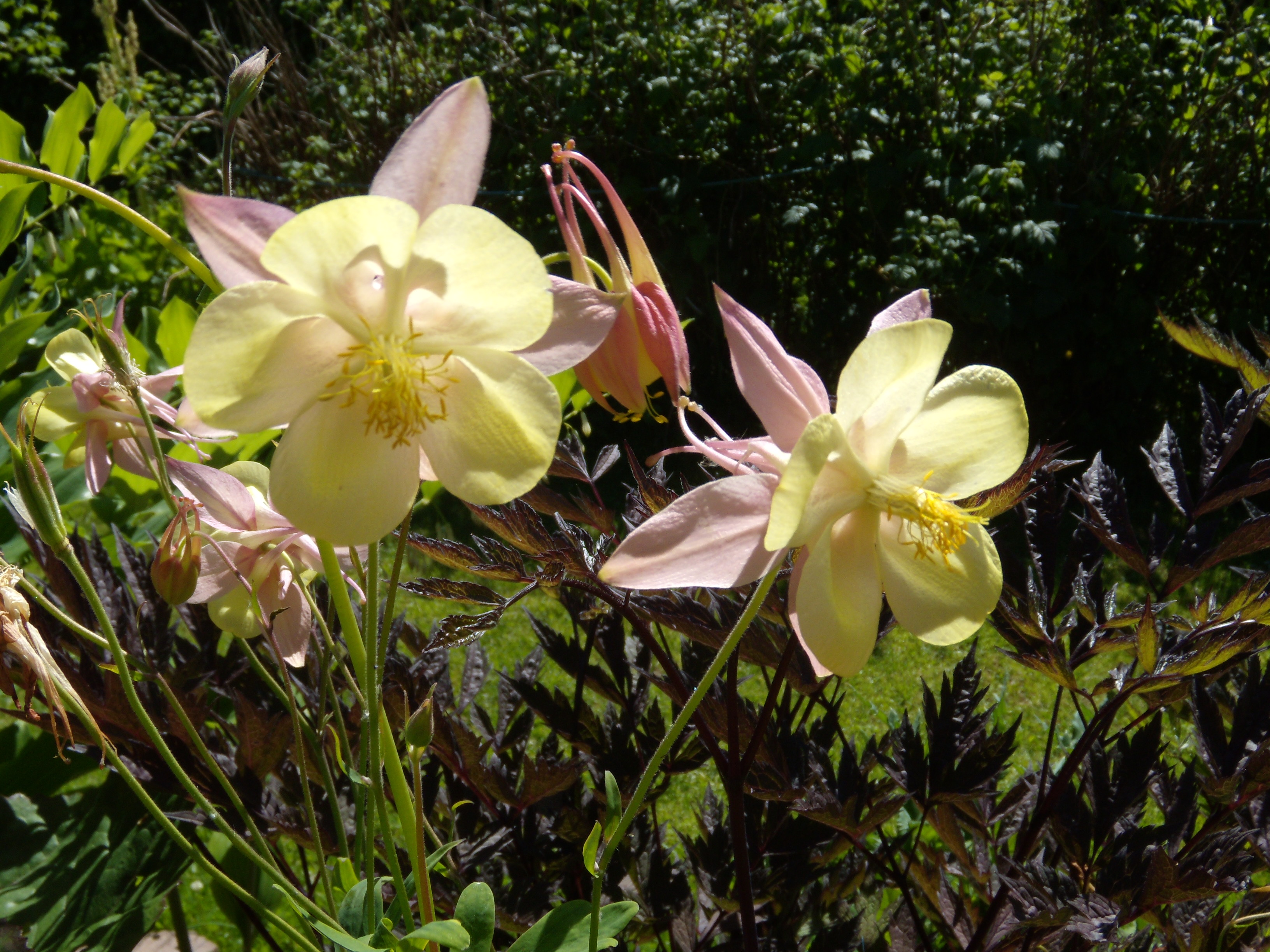 Aquilegia